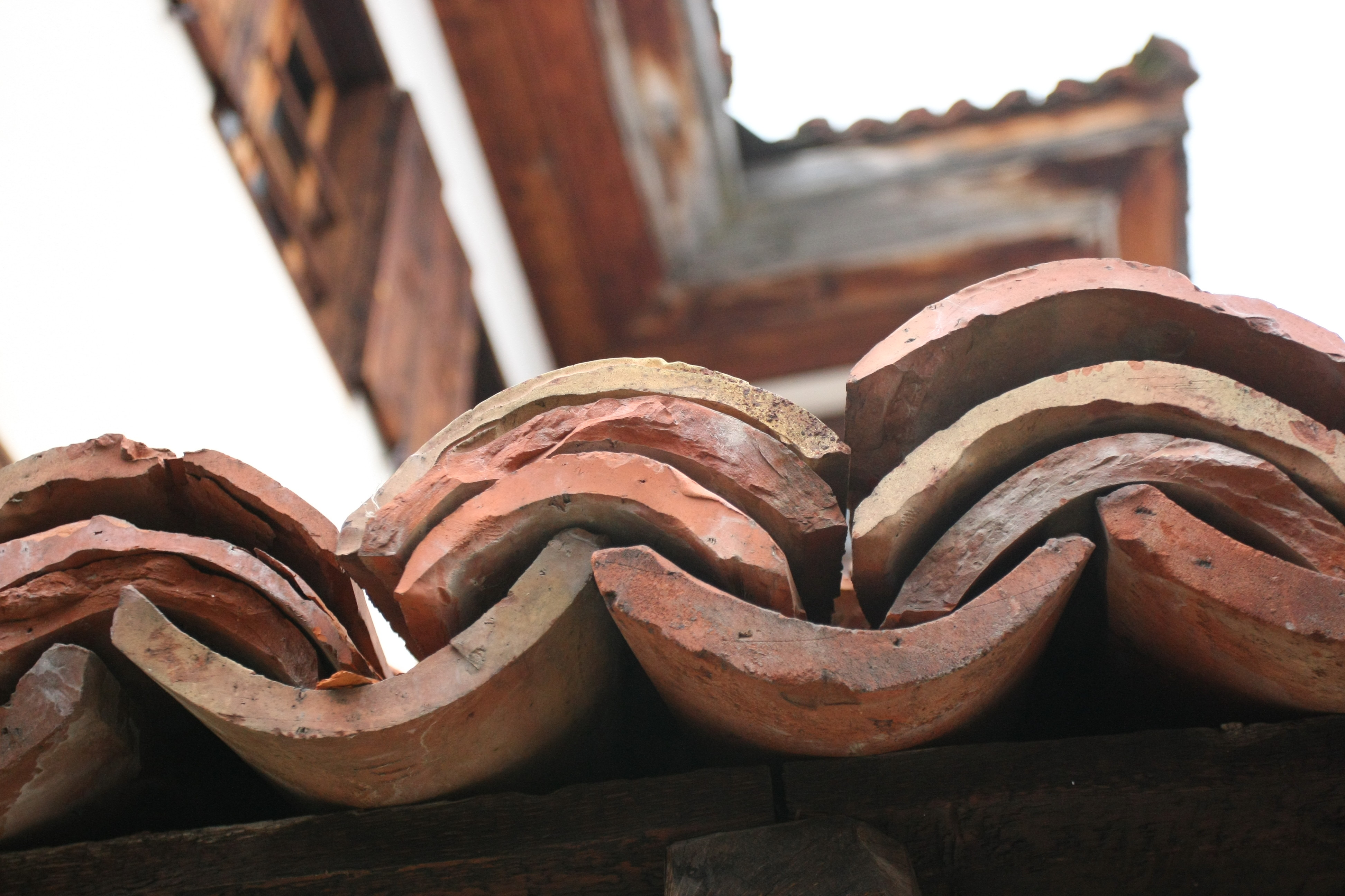 Greek tiles of the roof in the town Koprivshtica, Bulgaria